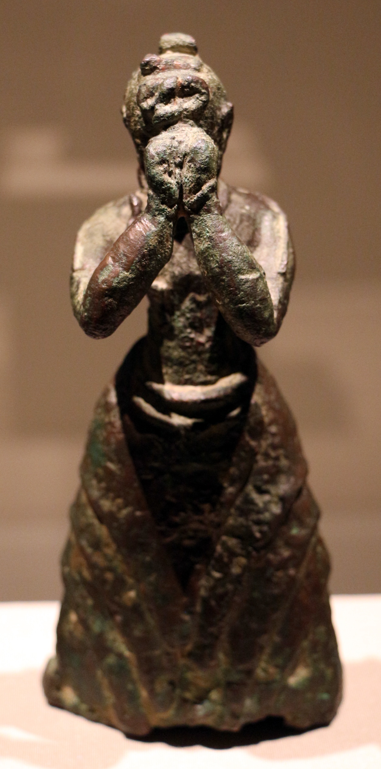 Greek antiquities in the Cleveland Museum of Art